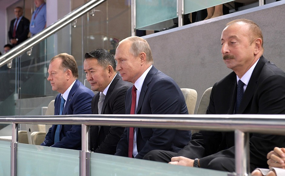 Visiting the World Judo Championship in Baku 2018. In the photo, from left to right: President of the International Judo Federation Marius Wieser, President of Mongolia Haltmaagiin Battulga, President of the Russian Federation Vladimir Putin, President of Azerbaijan Ilham Aliyev